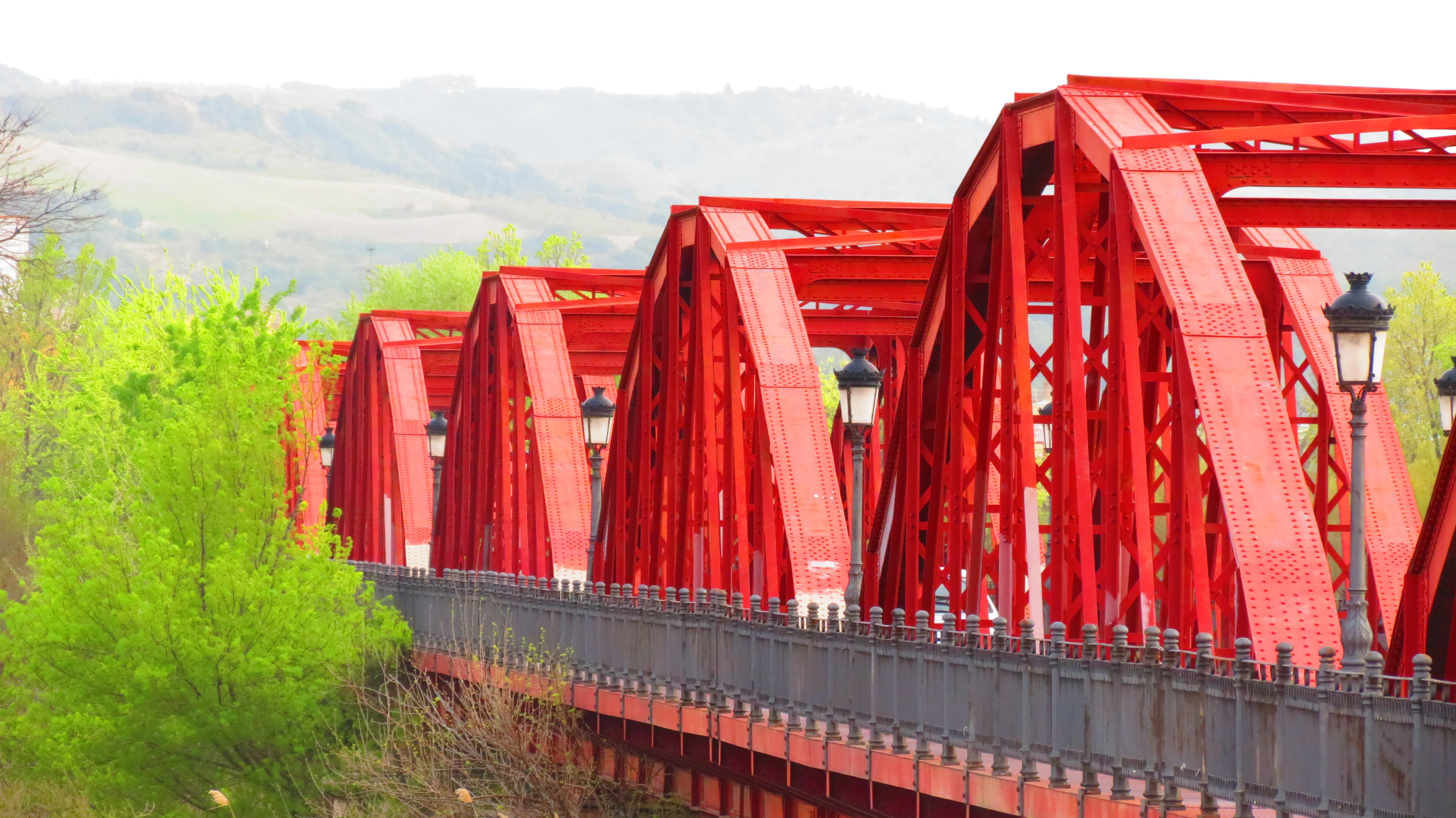 Iron Bridge over River Tagus in Talavera de la Reina, Spain